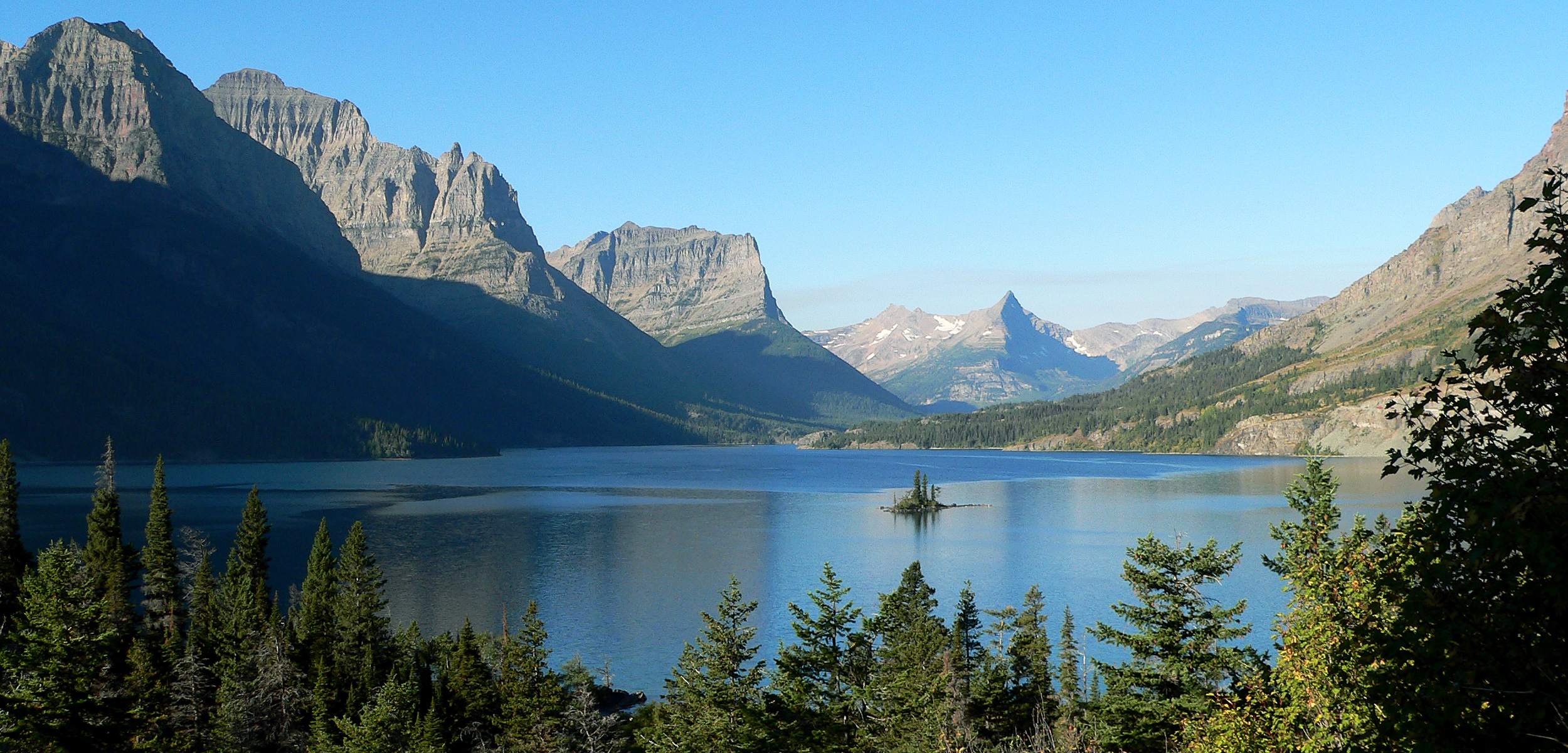 The upper end of St. Mary Lake and Wild Goose Island, Glacier National Park, Montana. Photo taken from Going-to-the-Sun Road